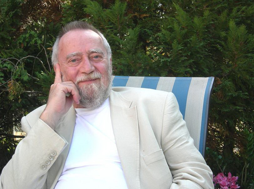 Máté Victor hungarian musician, composer, actor